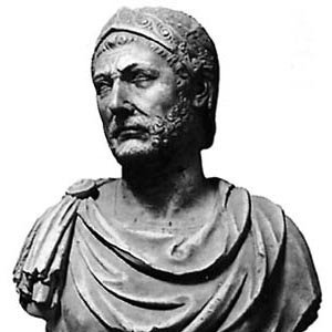 Hannibal